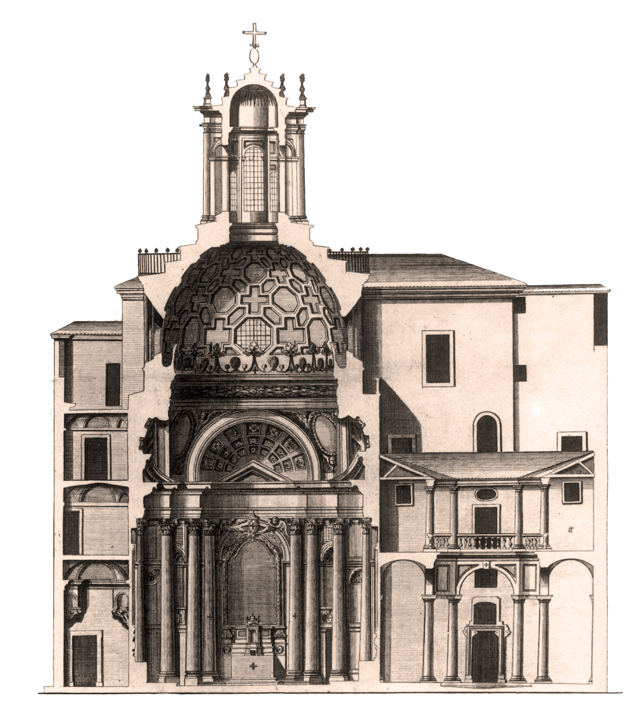 Sebastiano Giannini: Section of San Carlo alle Quattro Fontane, ca. 1730